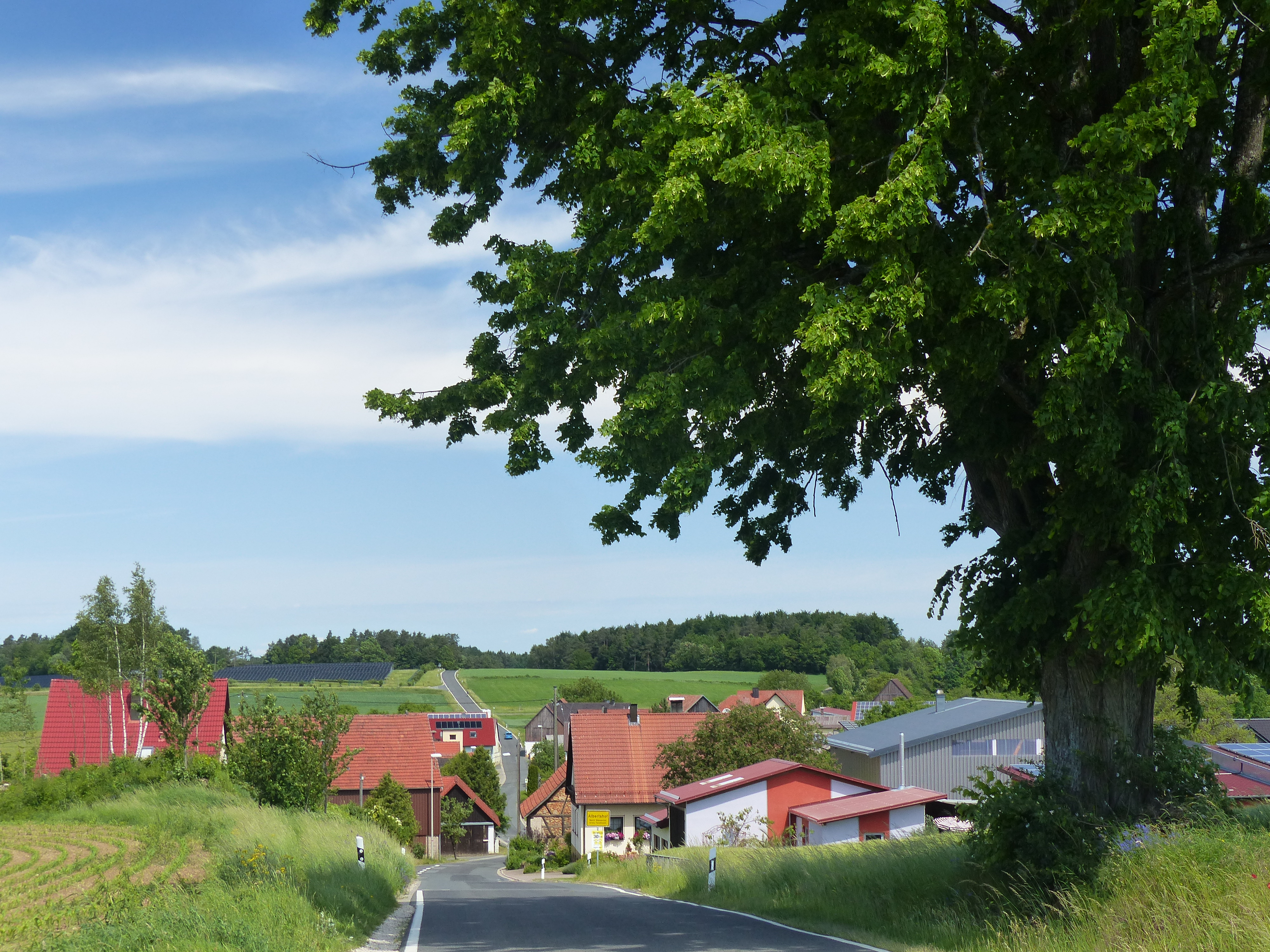 The village Albertshof, a district of the municipality of Wiesenttal